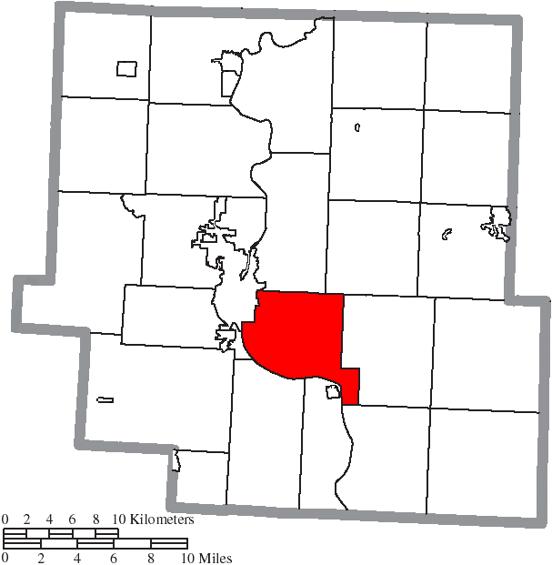 Map of the municipal and township boundaries of Muskingum County, Ohio, United States, as of the 2000 census, with the location of Wayne Township highlighted. Township borders are shown only in unincorporated areas in order to differentiate incorporated and unincorporated areas more clearly.